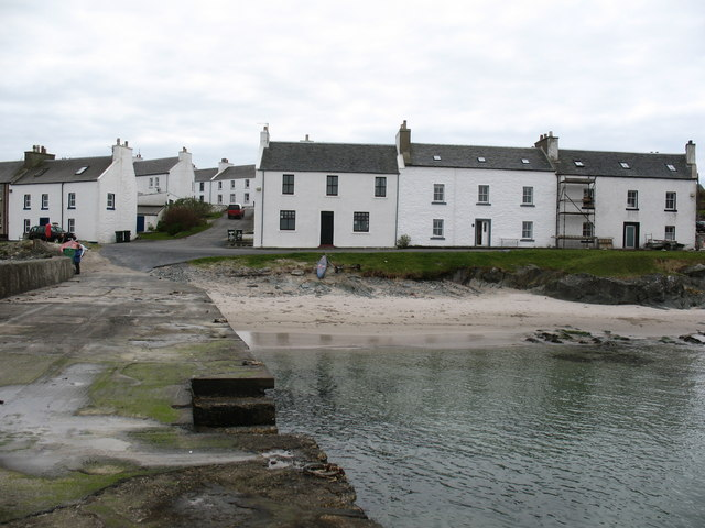 Port Charlotte from the pier.Port Charlotte is an attractive village, and the largest settlement on the Rinns of Islay. The village was founded in 1828 by Walter Frederick Campbell and named after his mother.